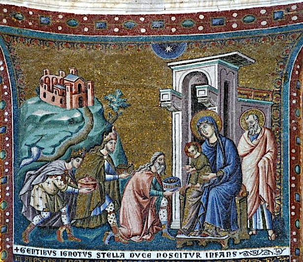 The three wise men, Santa Maria in Trastevere, in Rome.